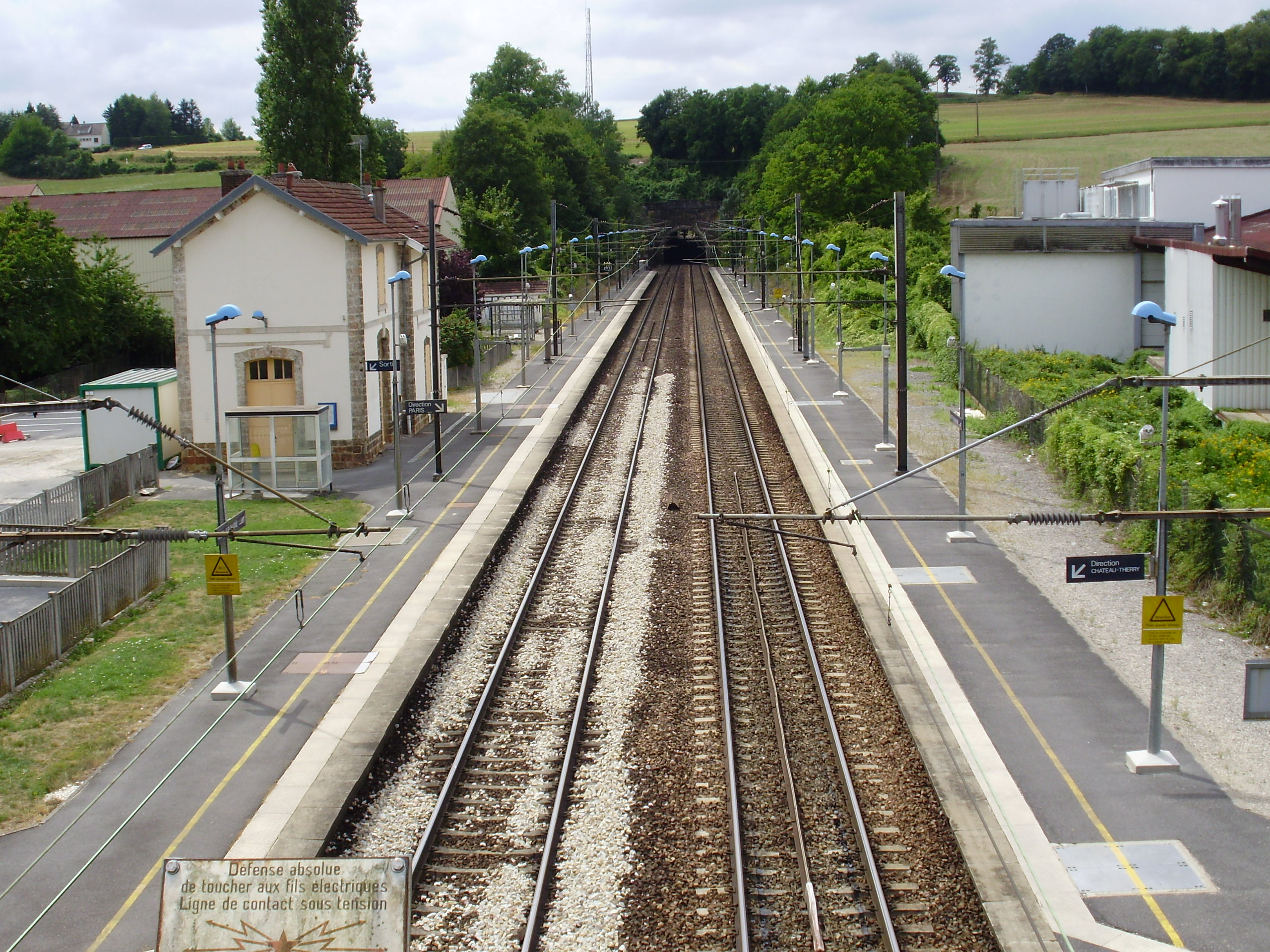 Chézy-sur-Marne station, Aisne, France, seen from a road bridge east of the station and looking to Paris